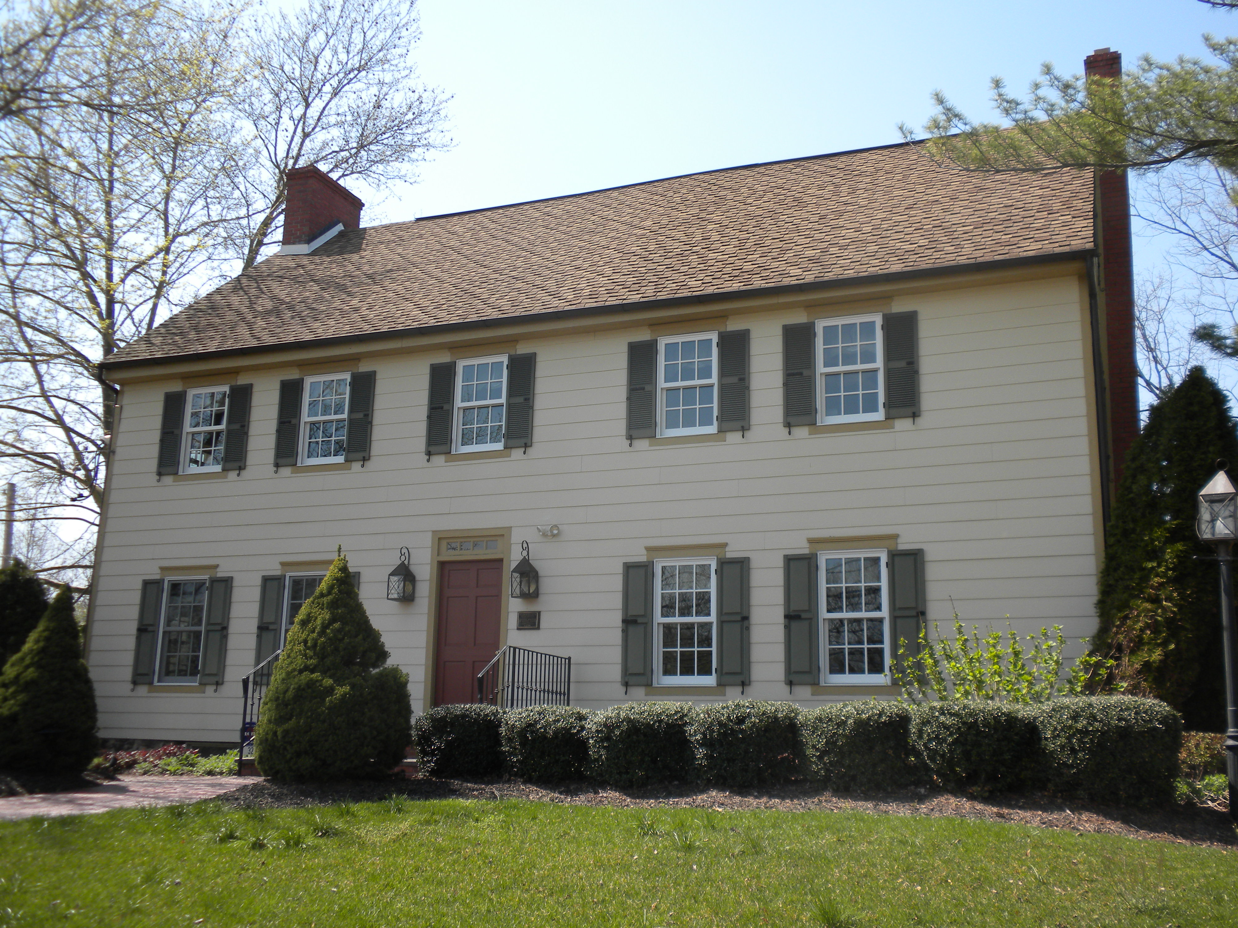 William Mullica House in Mullica Hill, New Jersey. The whole town is on the NRHP as a Historic District since April 25, 1991. the Historic district is roughly, Main St. from Mullica Hill-Bridgeport Rd. to jct. of Commissioner's Rd. and Bridgeton Pike, Harrison Township, in Gloucester County